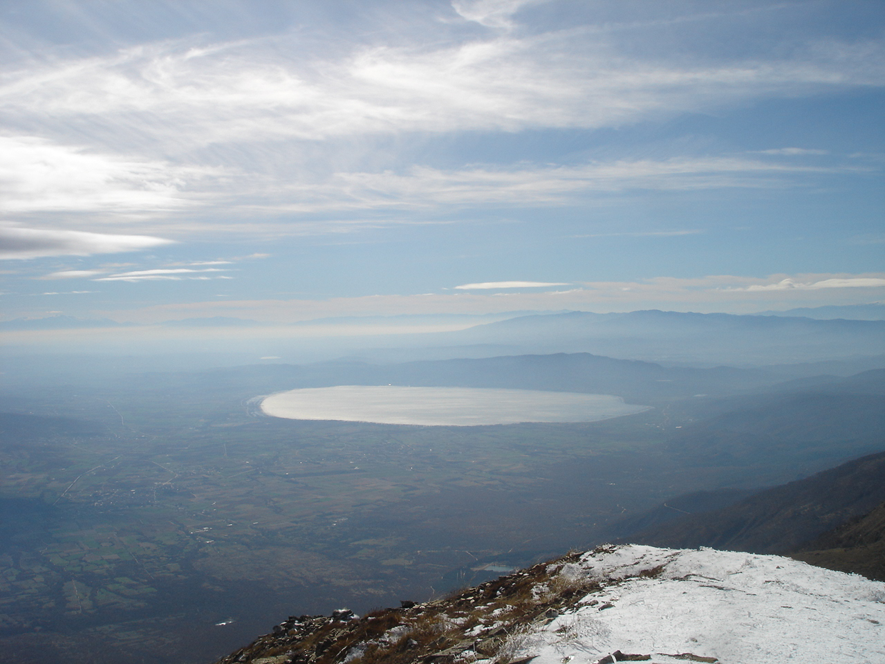 Dojran Lake seen from Belasica mountain, Macedonia